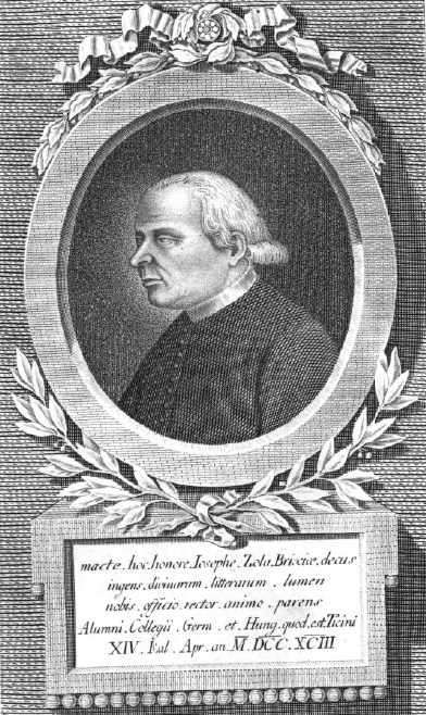 Abate Giuseppe Zola